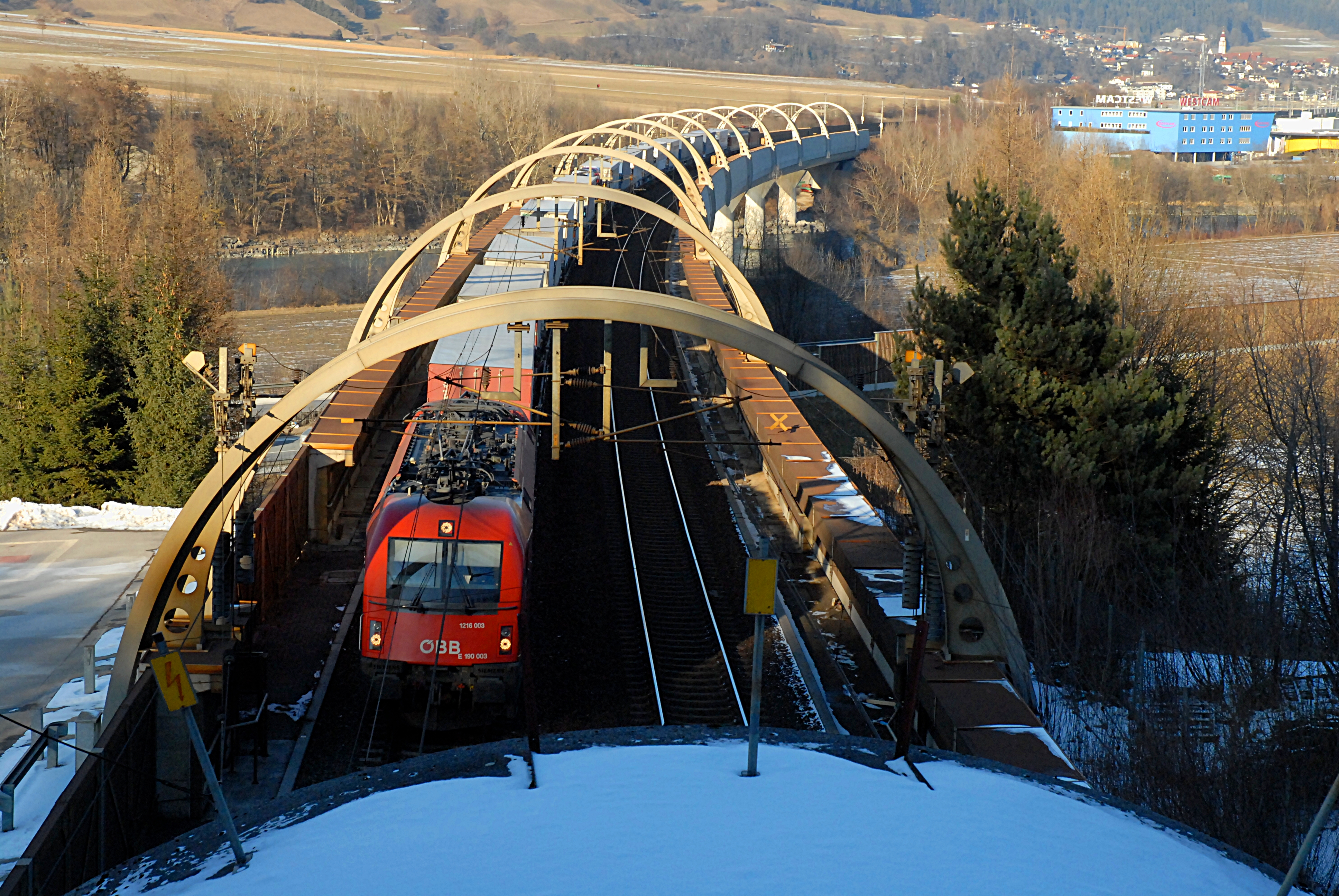 Bridge at the northern portal of the Inntaltunnel